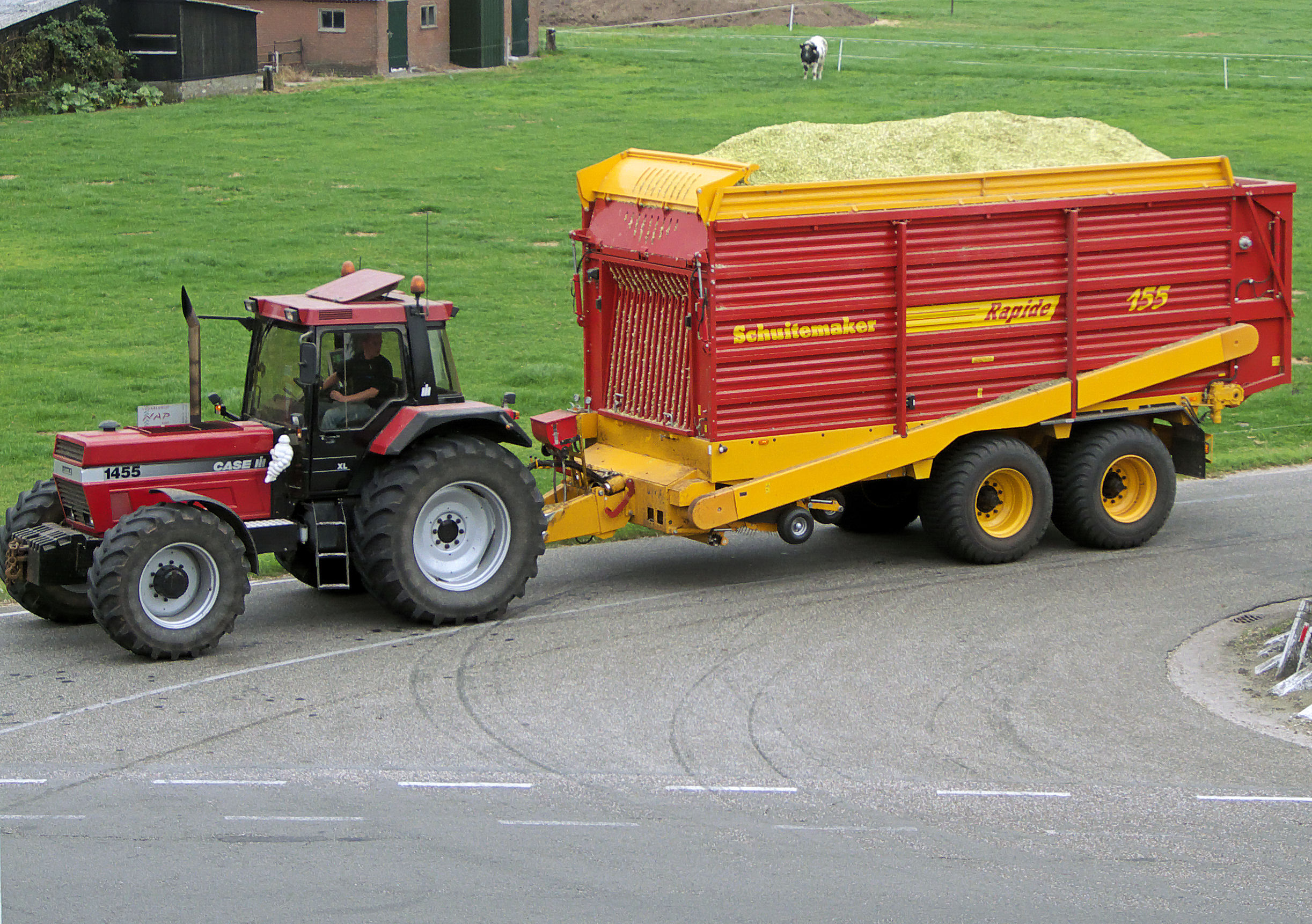 Case IH 1455 tractor pulling a Schuitemaker Rapide 155 multipurpose wagon (loader wagon, silage wagon, feeder wagon with 40 m³ capacity; pick-up unit in transport position) with maize silage